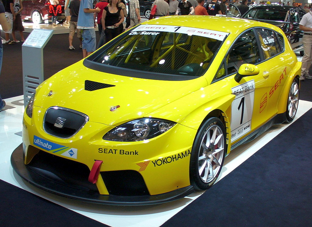 Seat Leon Cup